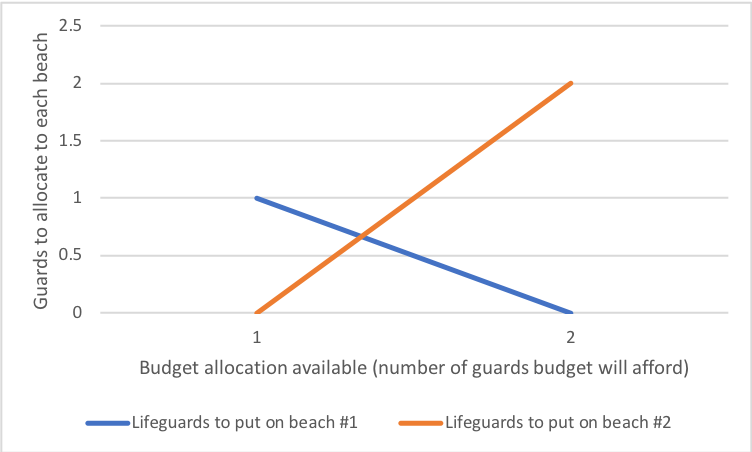 Budget optimization of lifeguards on beaches